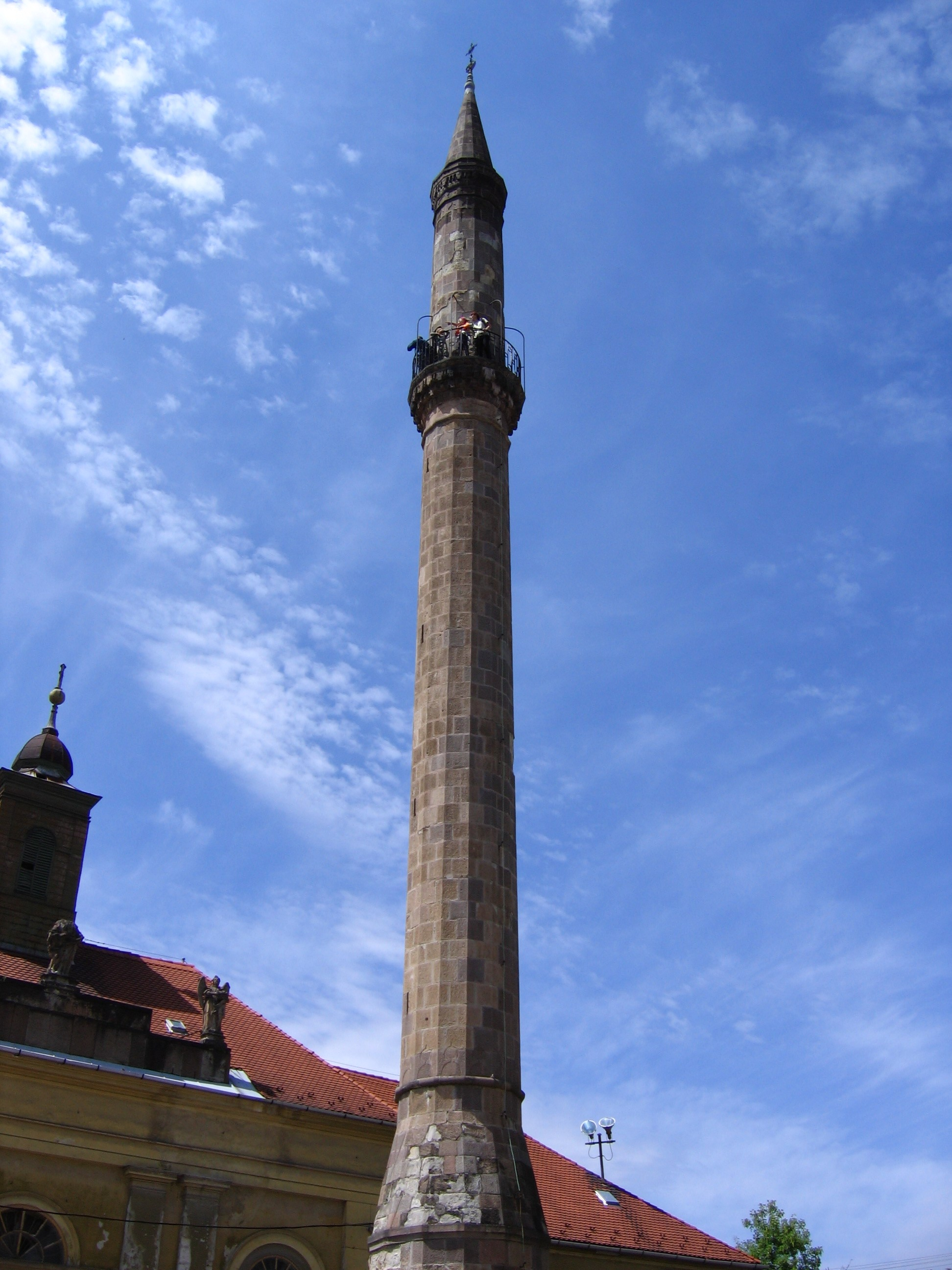 Minaret of Eger, Hungary